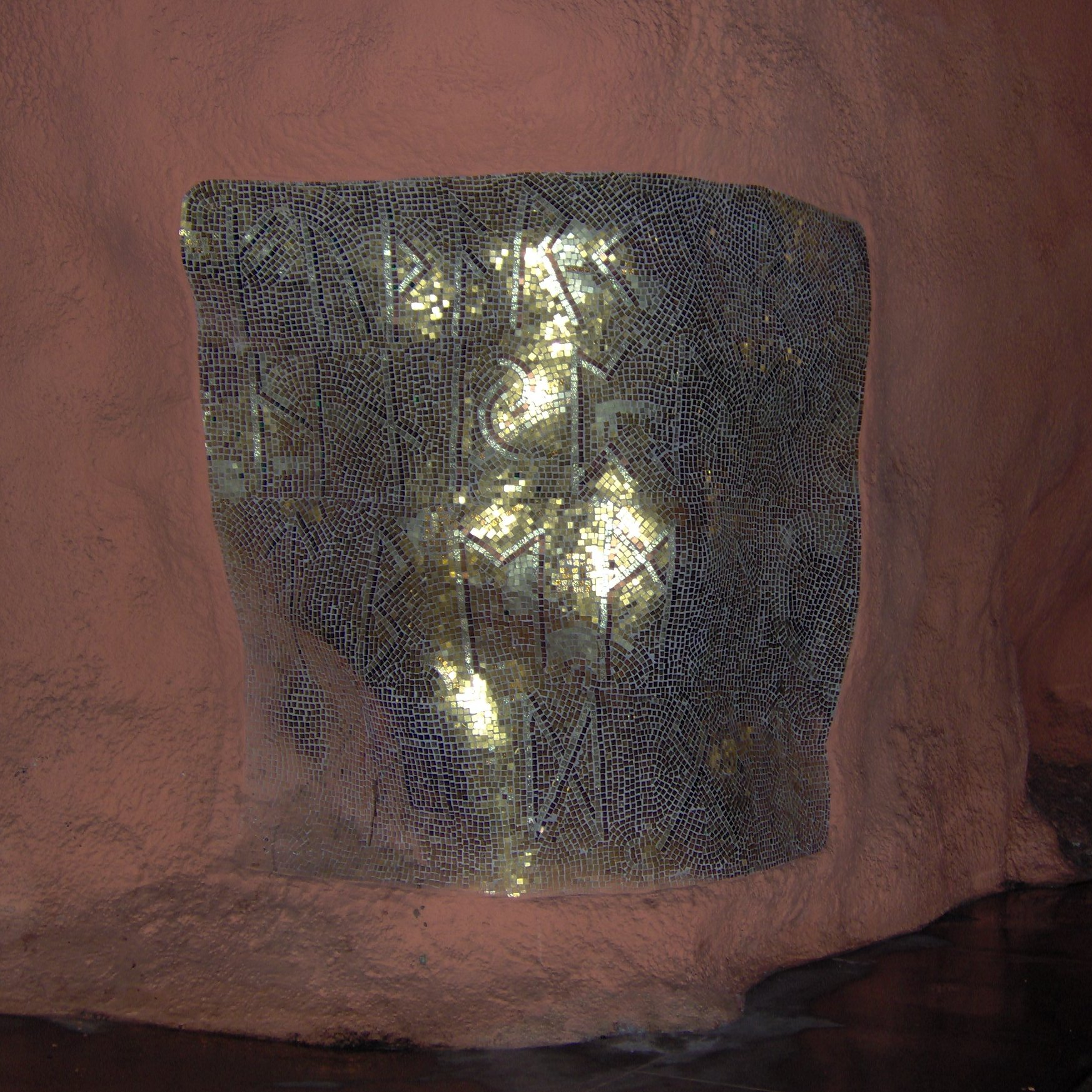 Art work (the Futhark) at the Stockholm metro station Rinkeby.